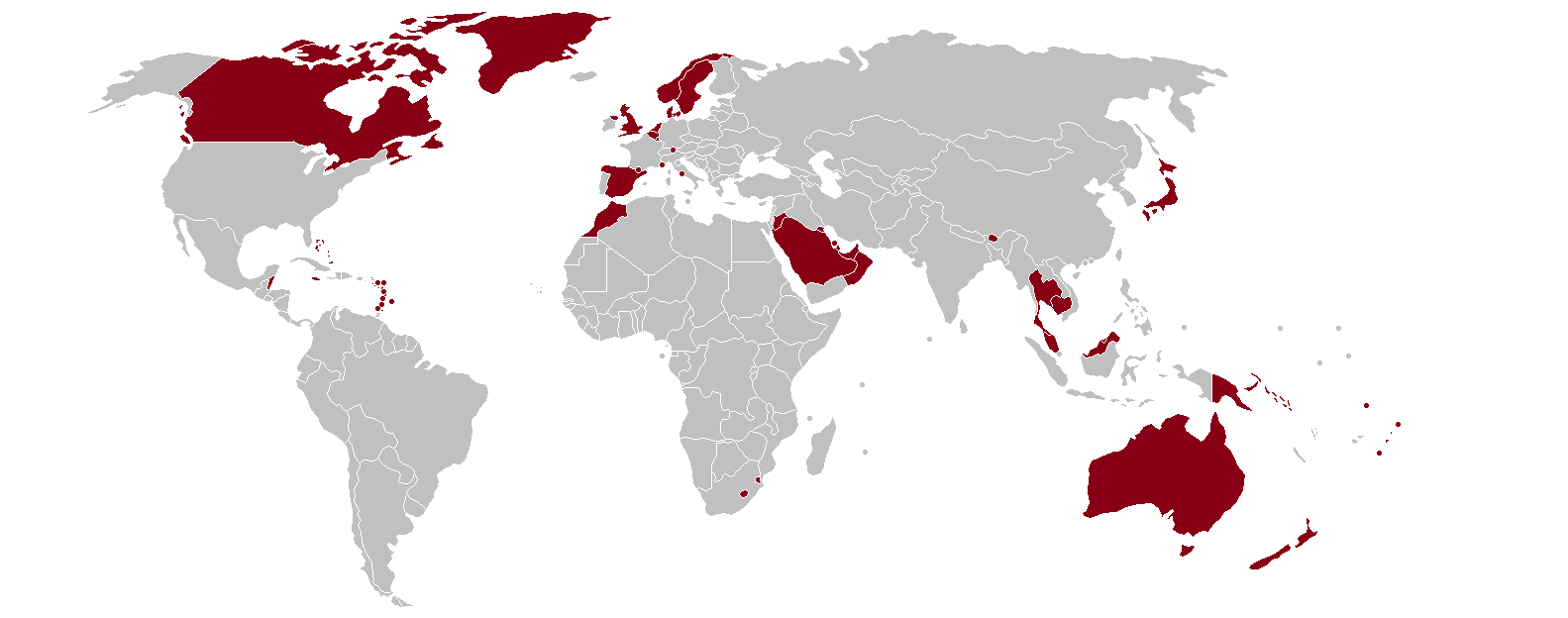 Current monarchies of the World